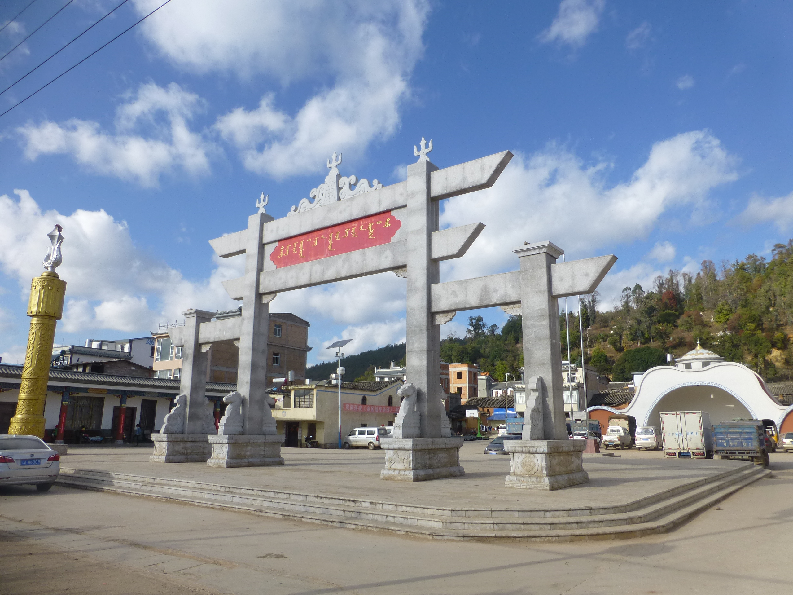 Xingmeng Mongol Ethnic Township, Tonghai County, Yunnnan.